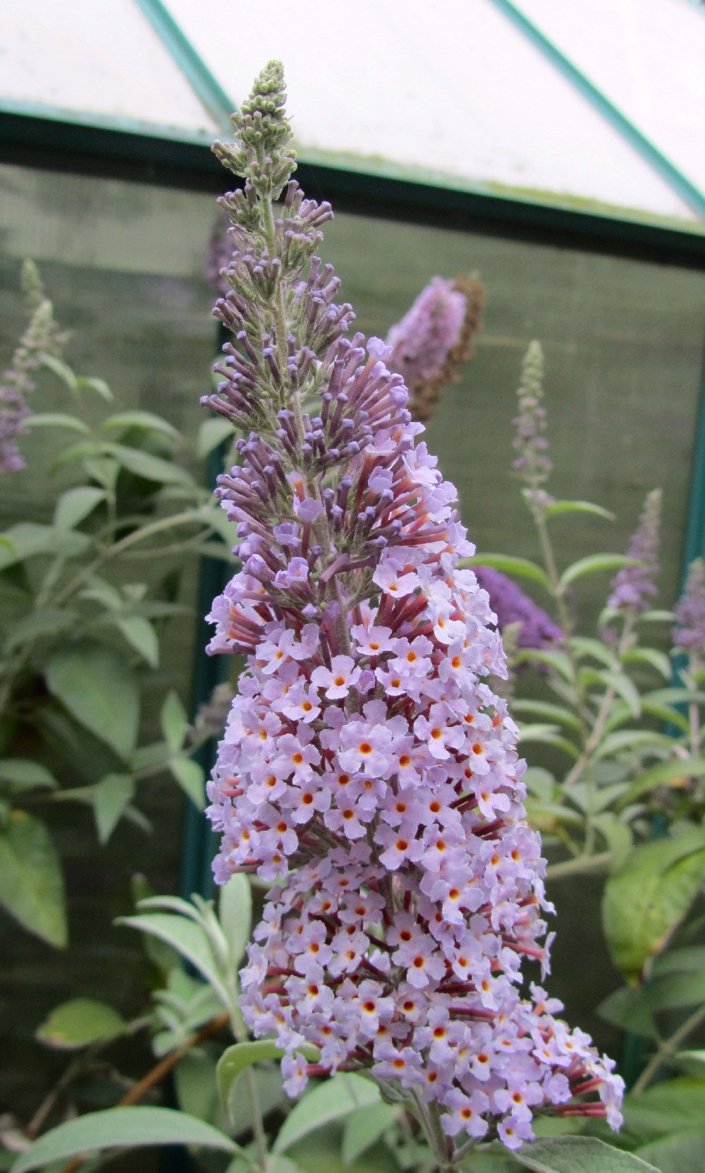 Taken summer 2011 at The Buddleja Garden of the cultivar Lilac Moon